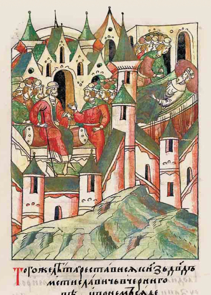 Death of David Sviatoslavich of Chernigov; Ascension of his brother, Yaroslav Sviatoslavich